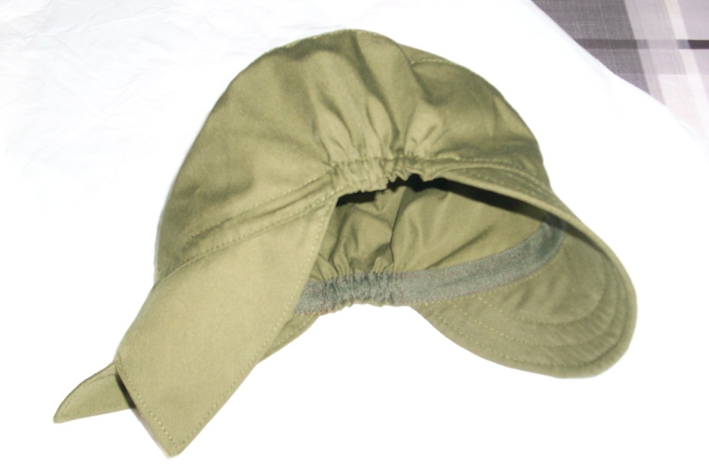 Portuguese field cap M1964 (quico), in the style of French paratroopers' casquette Bigeard